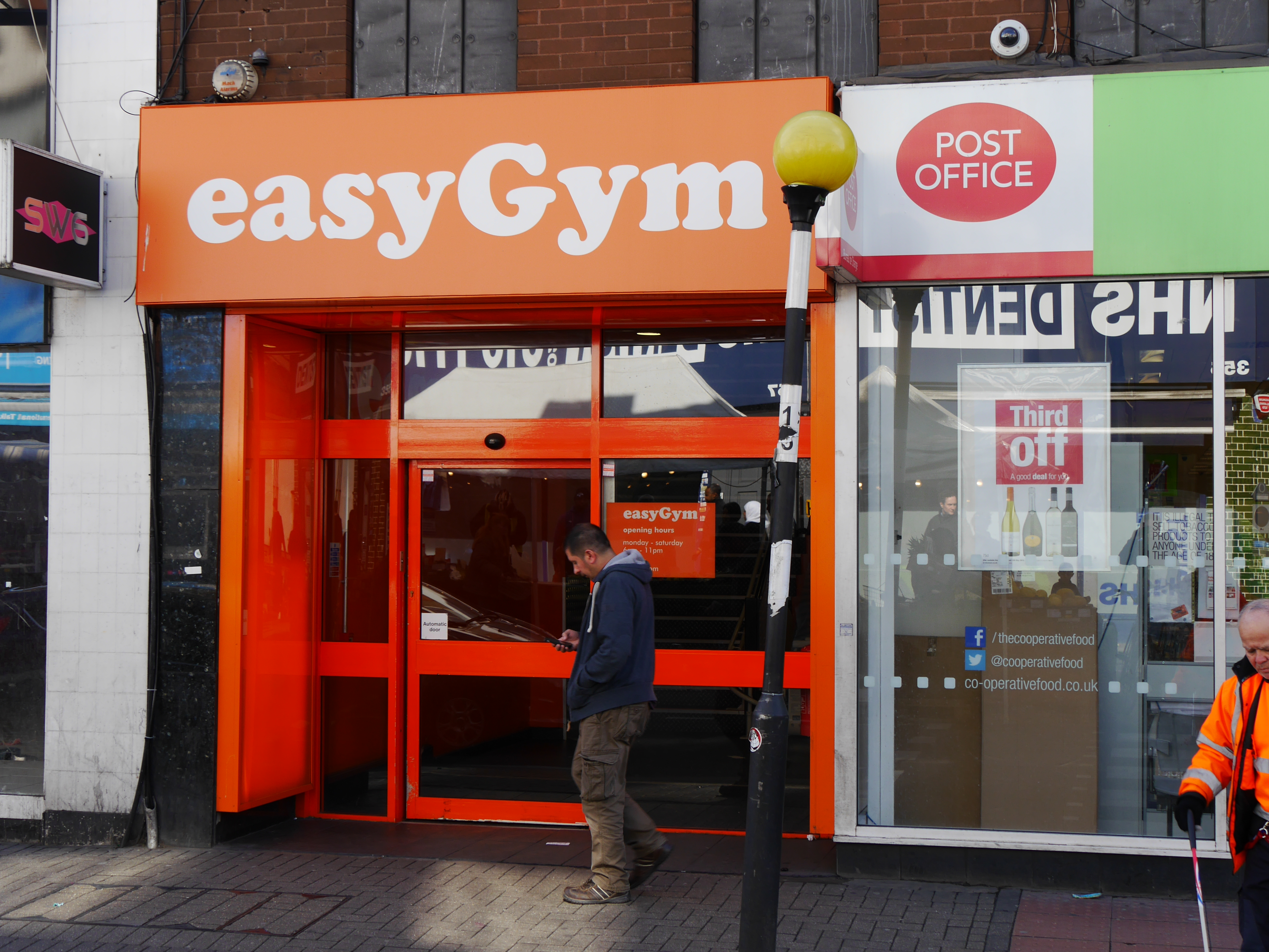 North End Road, Fulham, London